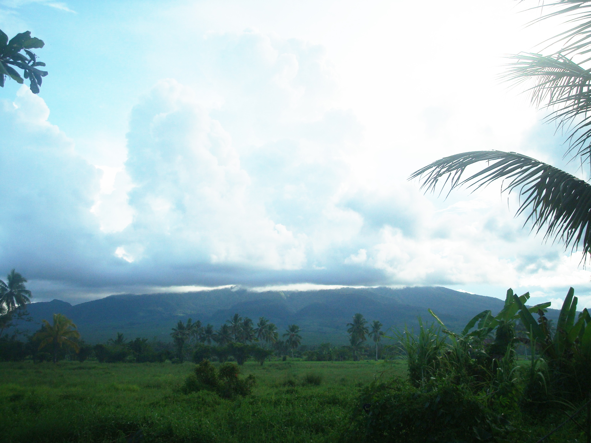 The famous Mount Amandewing, the highest point in Leyte Province - located near Dagami.